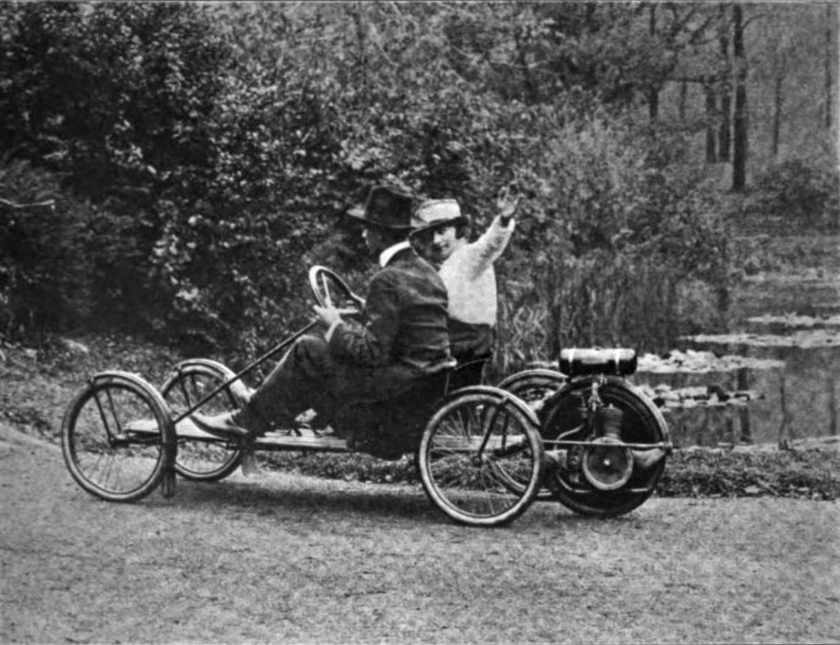 1916 photograph of an automobile constructed for fuel economy, probably an A.O. Smith Red Bug.